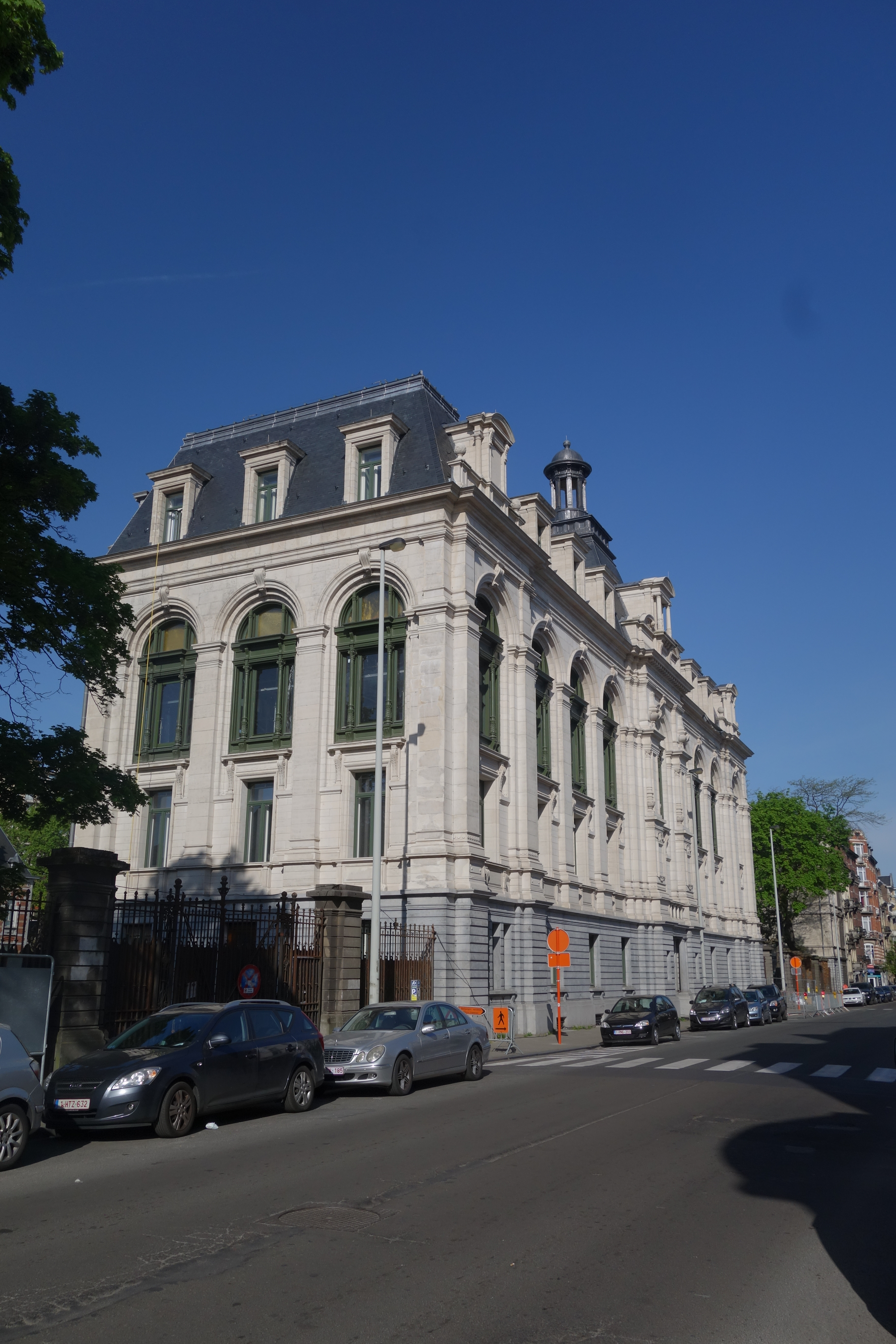 Central building of the former Royal School of Veterinary Medecine of Cureghem. Building inaugurated in 1892 and abandoned in 1991, when the Faculty for Veterinary Medecine of the University of Liège moved to Liège.